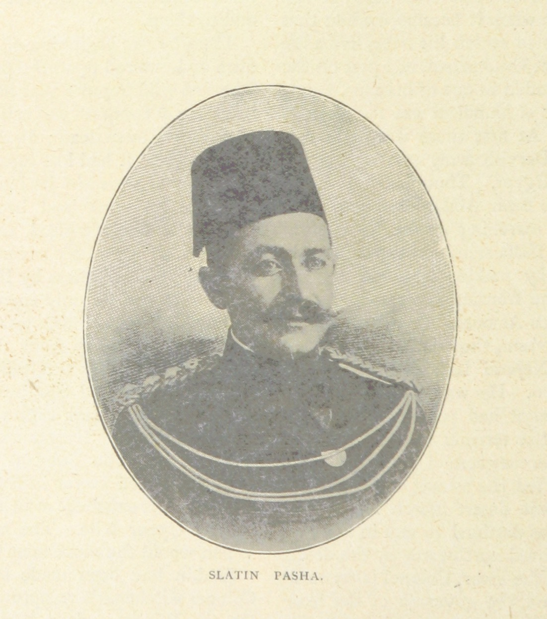 Slatin Pasha Image taken from: Title: "The Wars of the 'Nineties. A history of the warfare of the last ten years of the nineteenth century ... With ... illustrations ... and plans by the author" Author: ATTERIDGE, Andrew Hilliard. Shelfmark: "British Library HMNTS 9009.dd.6." Page: 24 Place of Publishing: London Date of Publishing: 1899 Publisher: Cassell & Co. Issuance: monographic Identifier: 000136915 Explore: Find this item in the British Library catalogue, 'Explore'. Download the PDF for this book (volume: 0) Image found on book scan 24 (NB not necessarily a page number) Download the OCR-derived text for this volume: (plain text) or (json) Click here to see all the illustrations in this book and click here to browse other illustrations published in books in the same year.